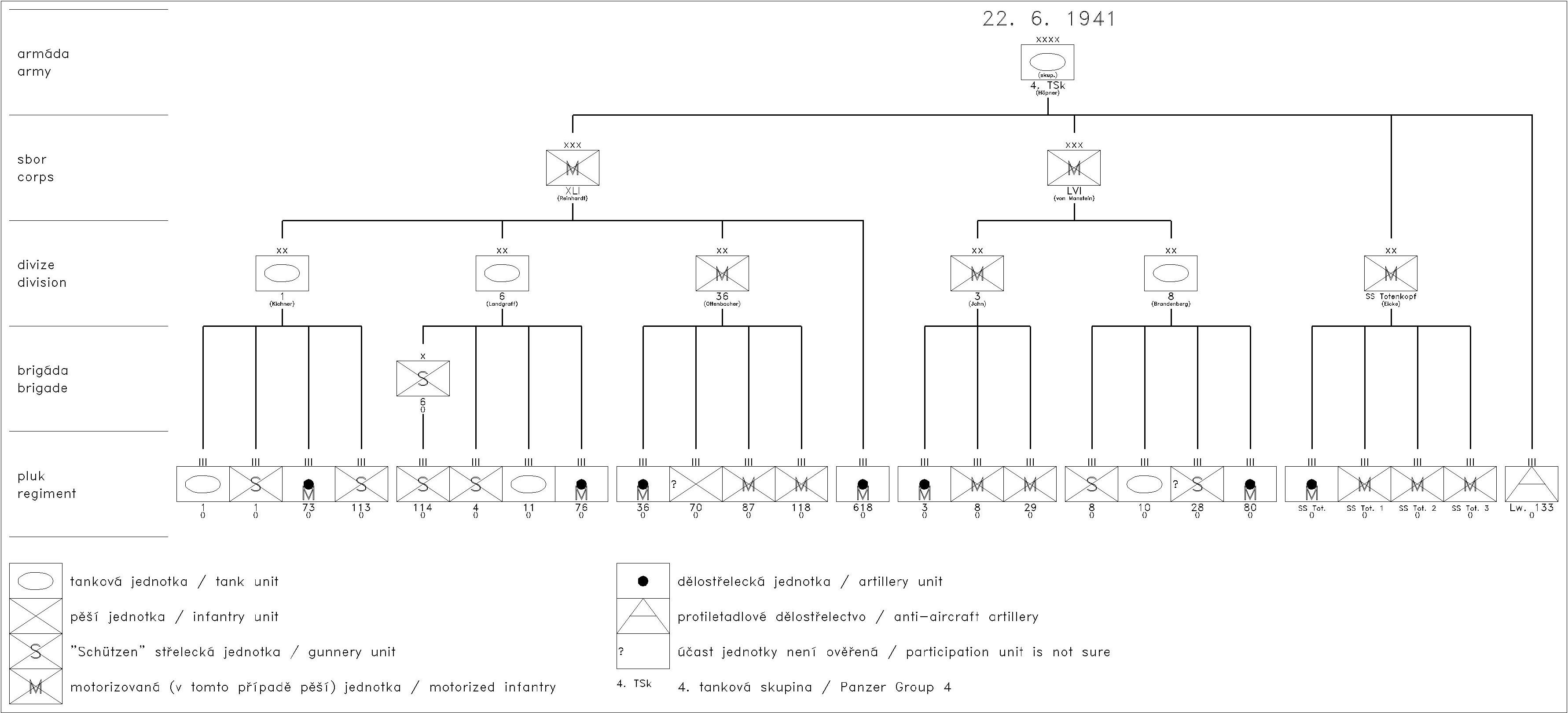 Panzer Group 4 (Höpner) 22.6.1941